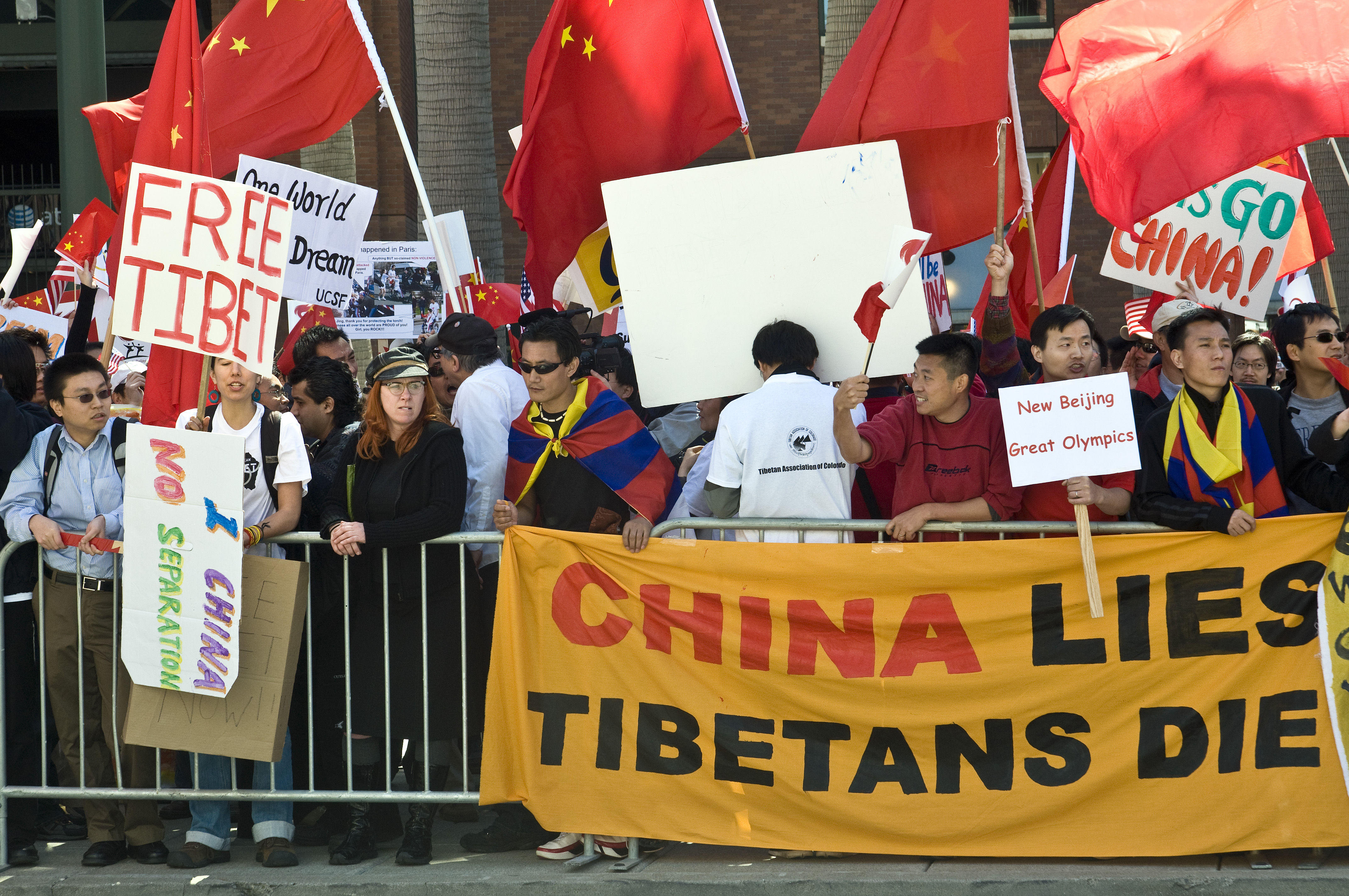 Protestors crowd the barrier gate waving signs and flags as pro-Beijing and pro-Tibetian protestors mingle.